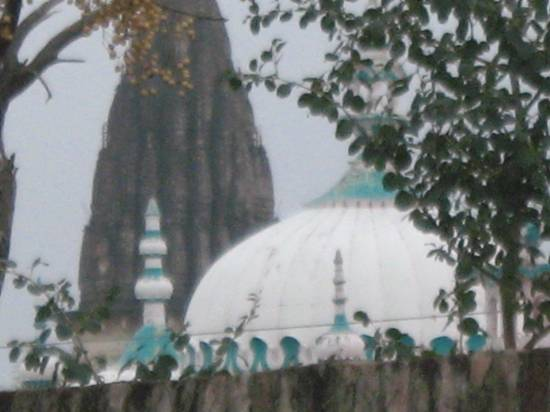 This is a Picture taken In village Bhaun in Distt. Chakwal , Punjab, Pakistan